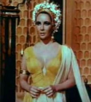 Cropped screenshot of Elizabeth Taylor from the trailer for the film Cleopatra.